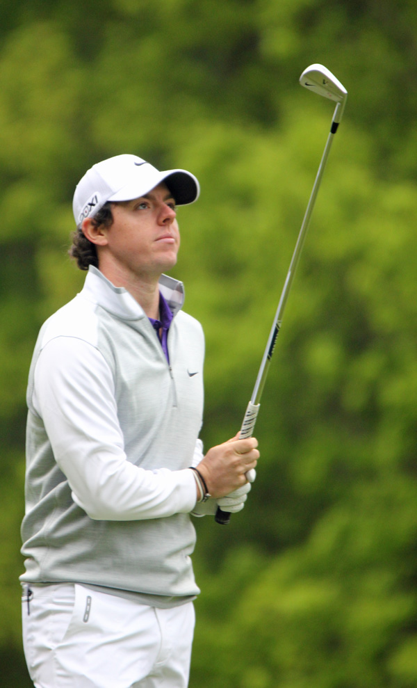 Rory McIlroy holds aloft a long iron following a shot during a practice day for the 2013 BMW PGA Championship at Wentworth Club. In interlocking grip can be seen in this photo.